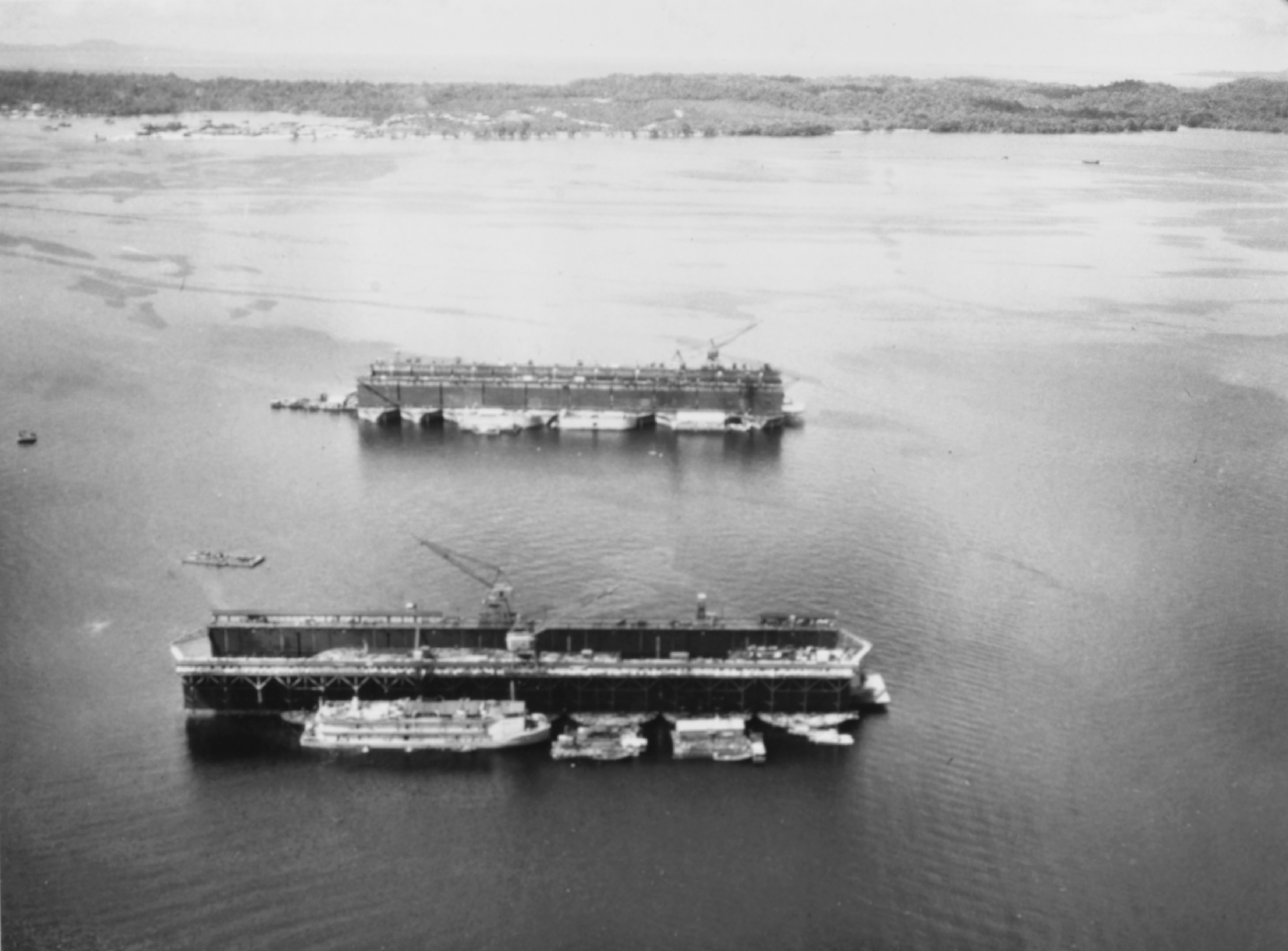 The U.S. Naval Amphibious Base, Manus, Admiralty Islands: Floating drydocks ABSD-2 (foreground) and ABSD-4 in Seeadler Harbor, Manus, 18 September 1945.